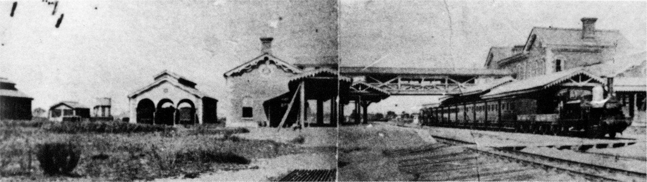 The Original Osaka Station in its early days (the first depot, track yard).